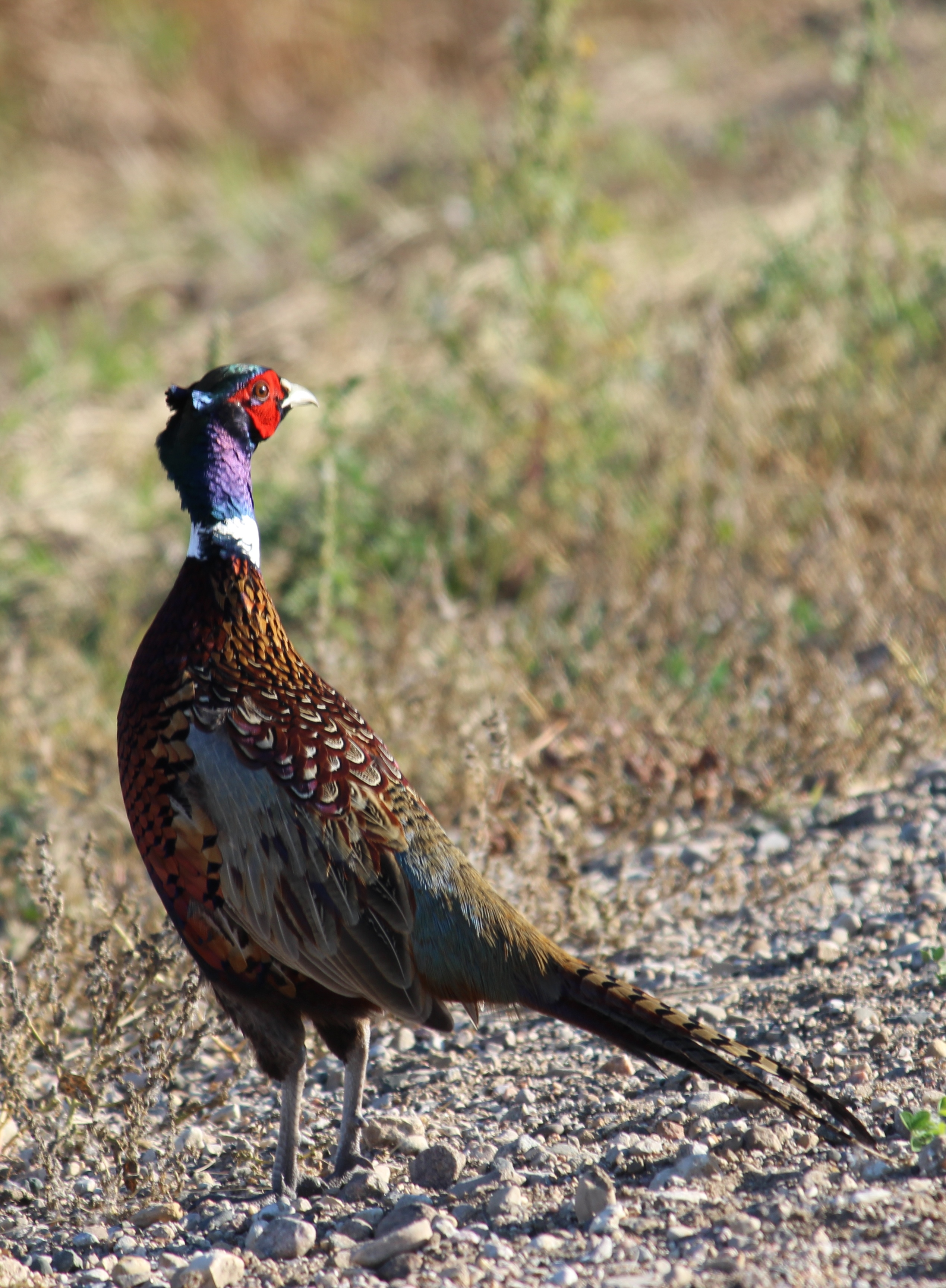 Though not native to North America (introduced from Asia), the Ring-necked Pheasant has become an important gamebird and a symbol of conservation in its own right. Grassland habitats provide benefits for ducks, pheasants, grouse, and deer, and conservation or restoration of these areas helps a wide array of species. Photo Credit: Krista Lundgren/USFWS